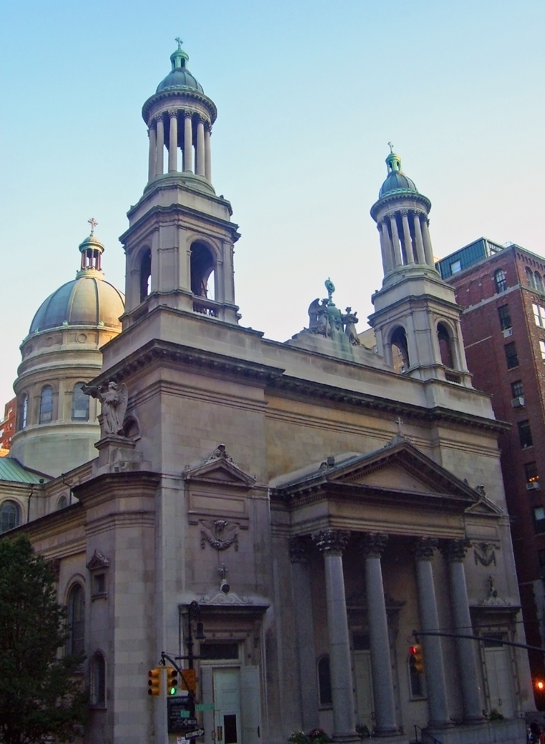 St. Jean Baptiste Church and Rectory, cropped and color-corrected 2010-04-08 by Daniel Case